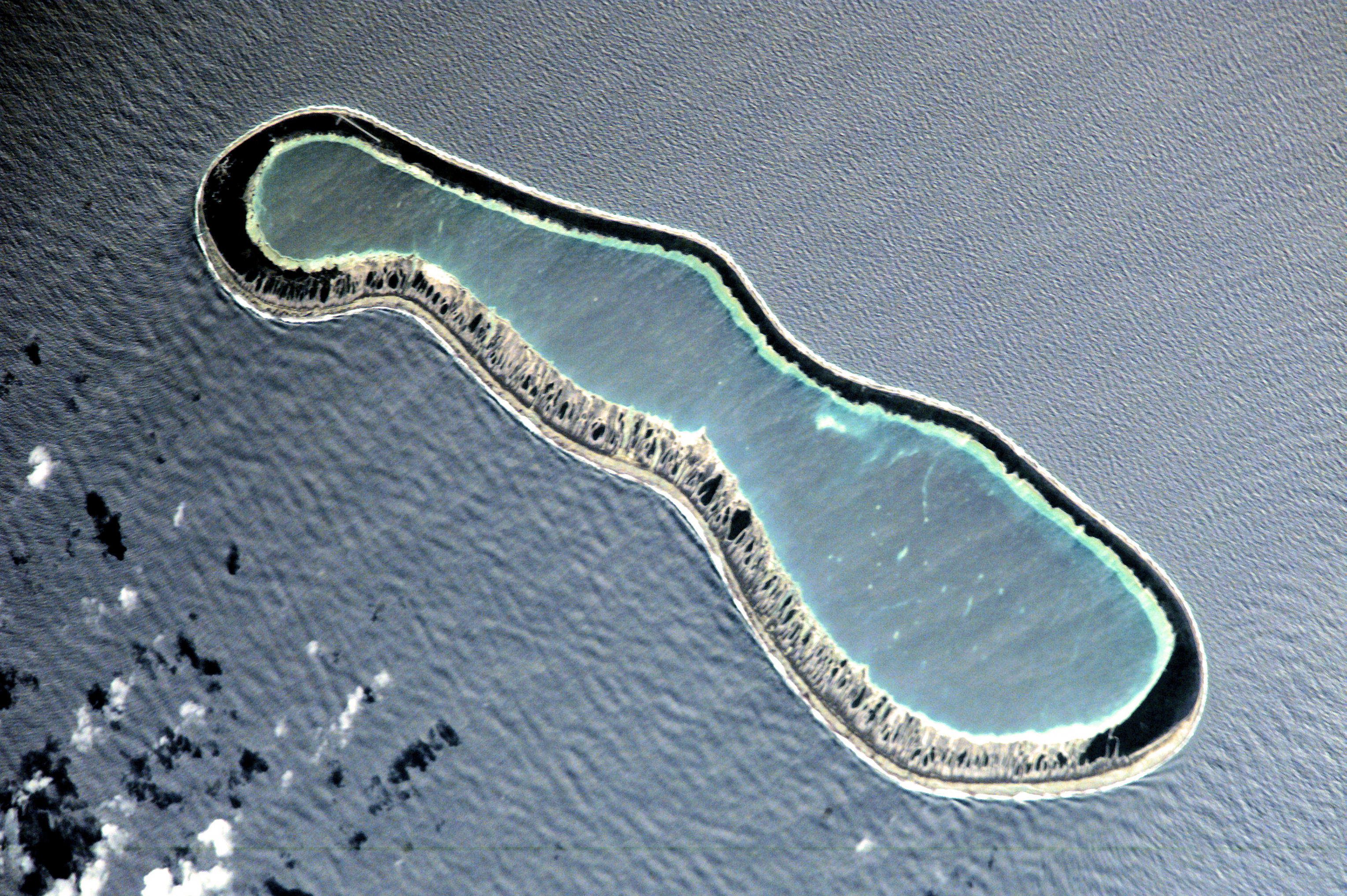 Atoll Reao (Tuamotu Archipelago, French Polynesia), from space.